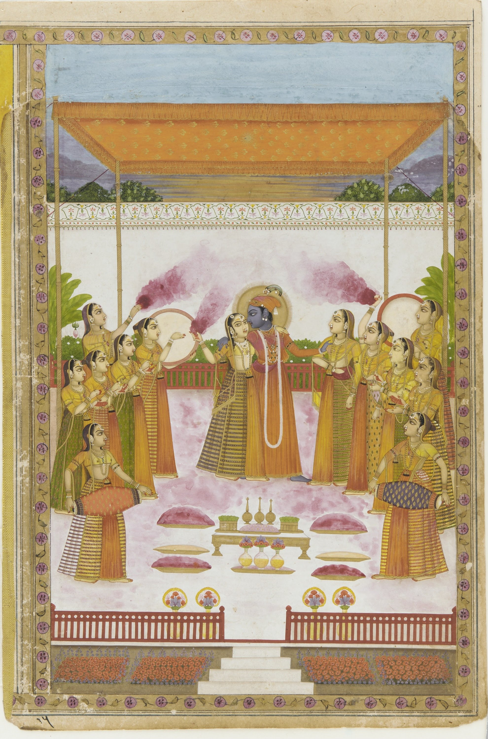 Radha, Krishna and sakhis playing Holi. Lucknow, Avadh (Oudh), 19th century. Opaque watercolor and gold on paper, H: 28.9 W: 19.2 cm .